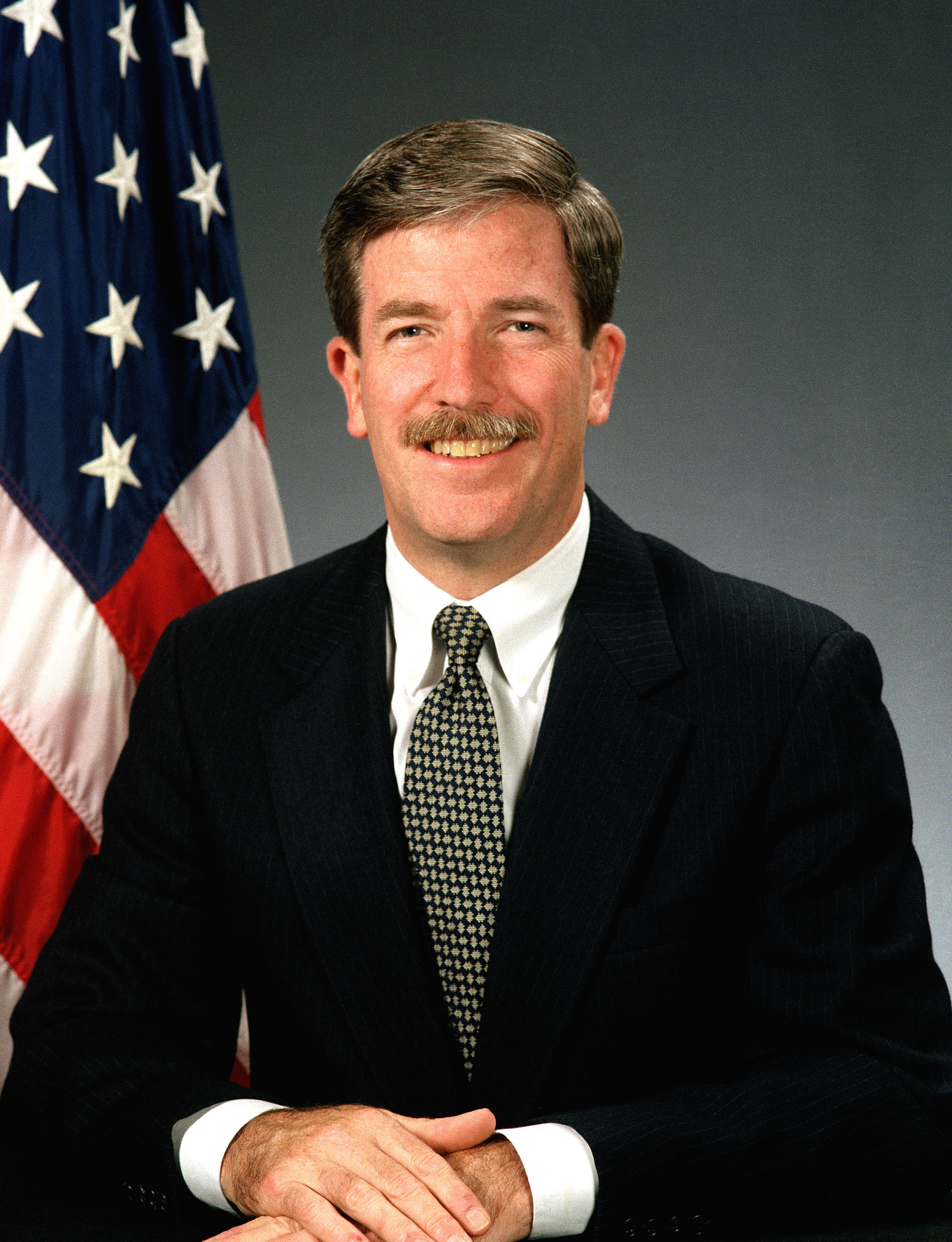 H. Lee Buchanan III, Assistant Secretary of the Navy for Research, Development and Acquisition